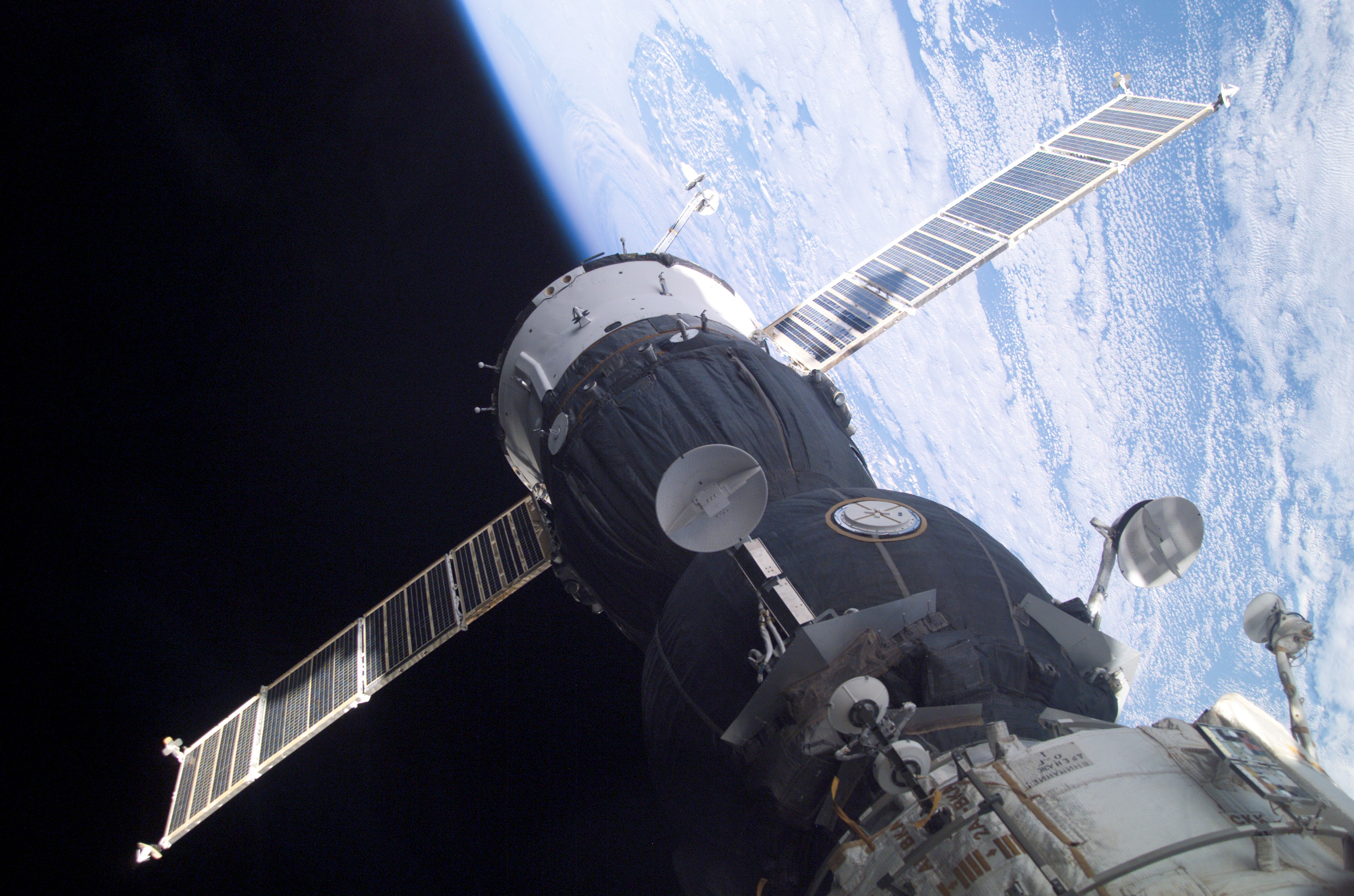 A Soyuz spacecraft, which carried the Soyuz 5 taxi crew, is docked to the Pirs docking compartment on the International Space Station (ISS). The new Soyuz TMA-1 vehicle was designed to accommodate larger or smaller crewmembers, and is equipped with upgraded computers, a new cockpit control panel and improved avionics. The blackness of space and Earth’s horizon provide the backdrop for the scene.